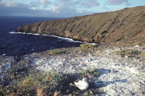 A Masked Booby (Sula dactylatra) nesting near the cliffs of east Kaʻula Rock, Hawaiʻi.